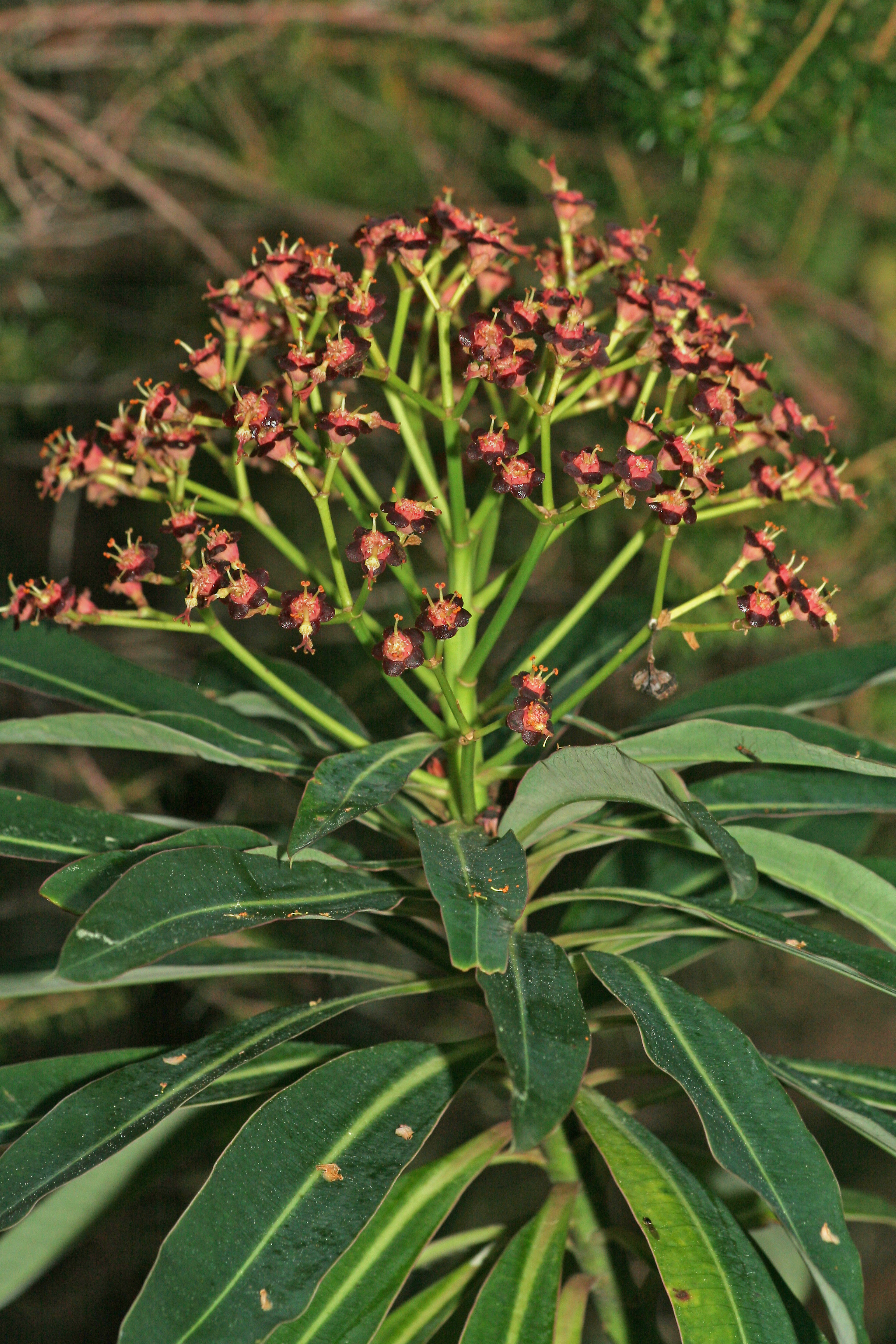 Euphorbia mellifera, Madeira (Folhadal)